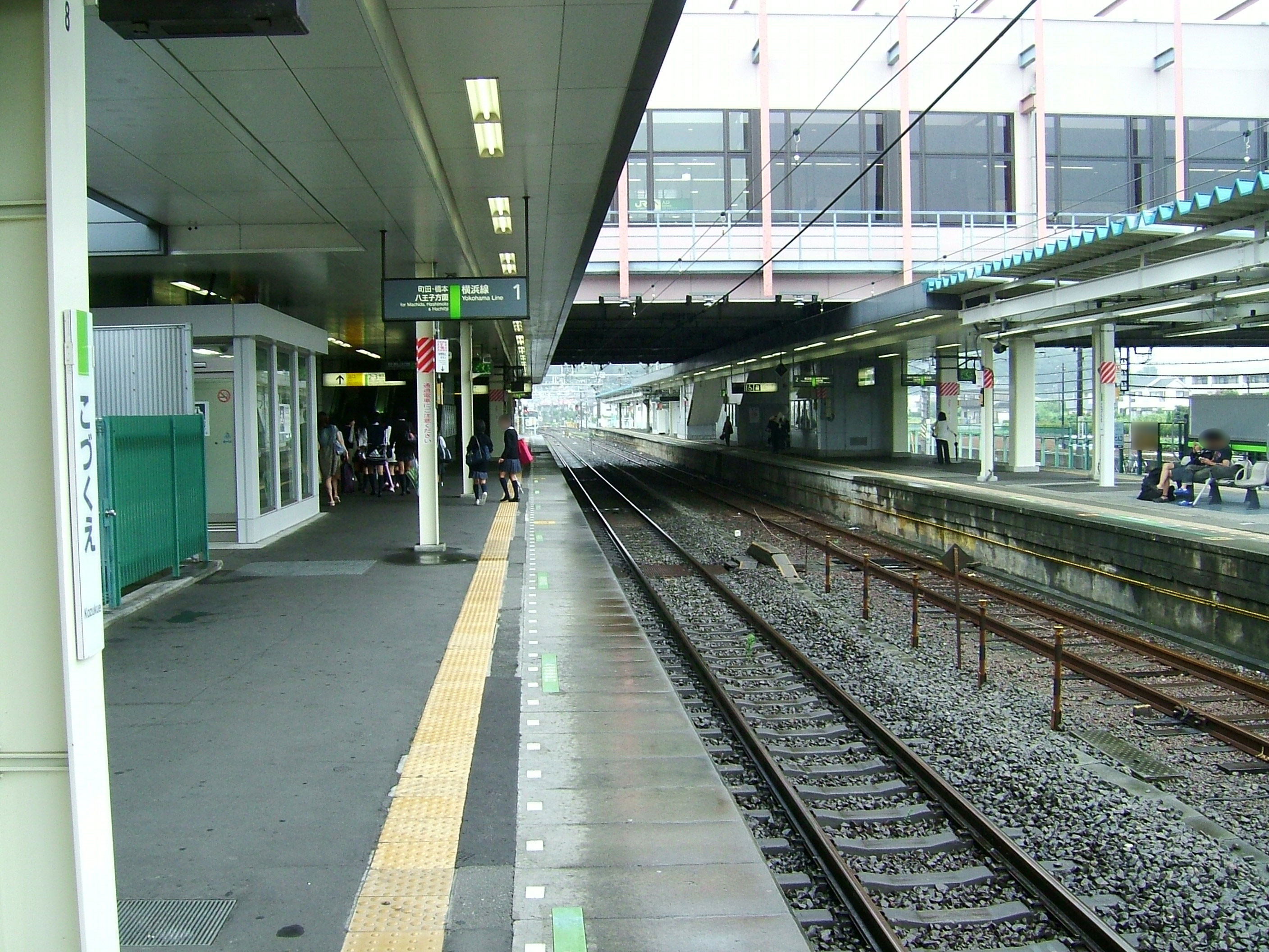 Kozukue Station platform (East Japan Railway Yokohama Line)